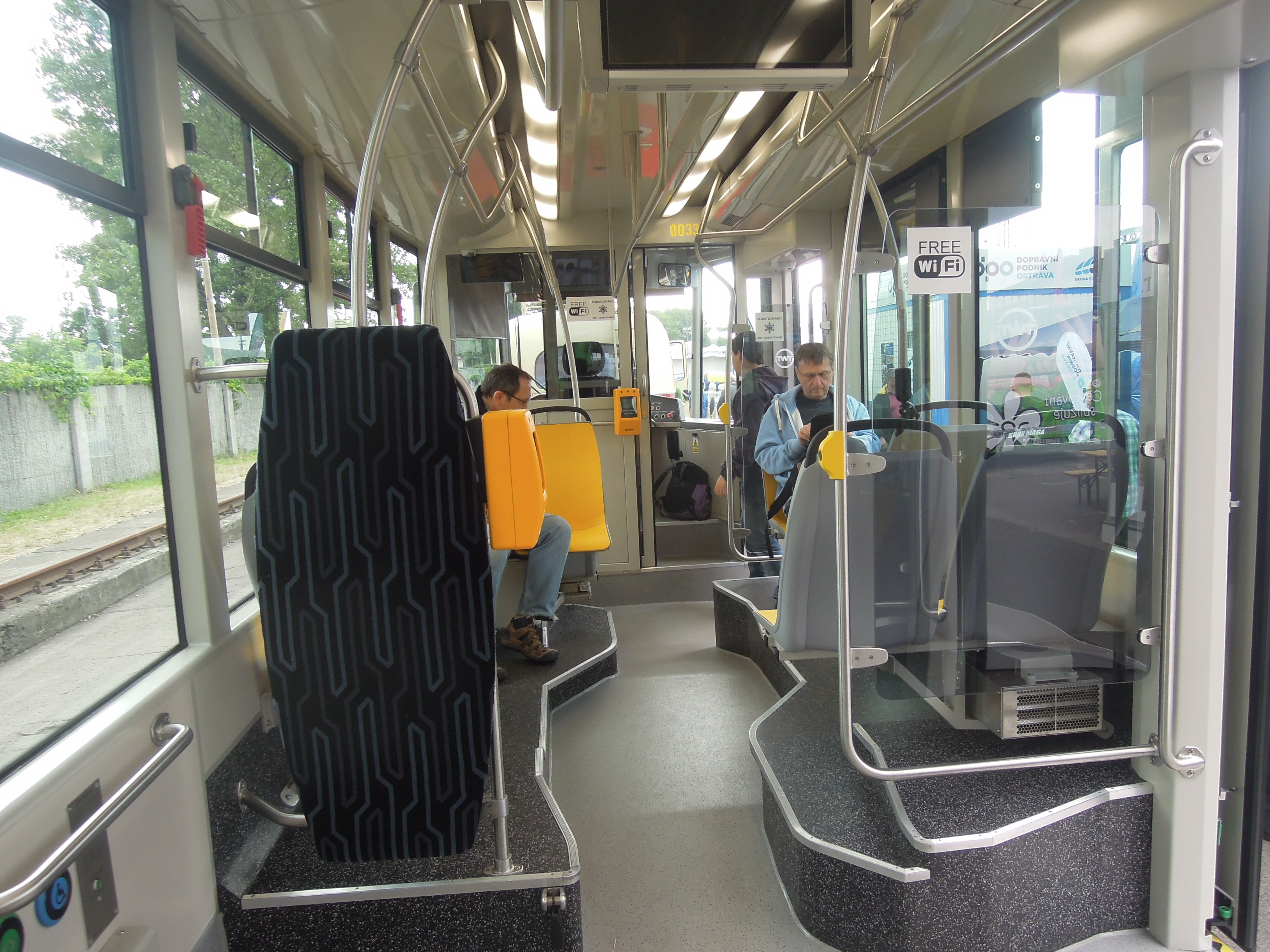 EVO1 tram at the Czech Raildays 2015 trade fair in Ostrava, Czech Republic